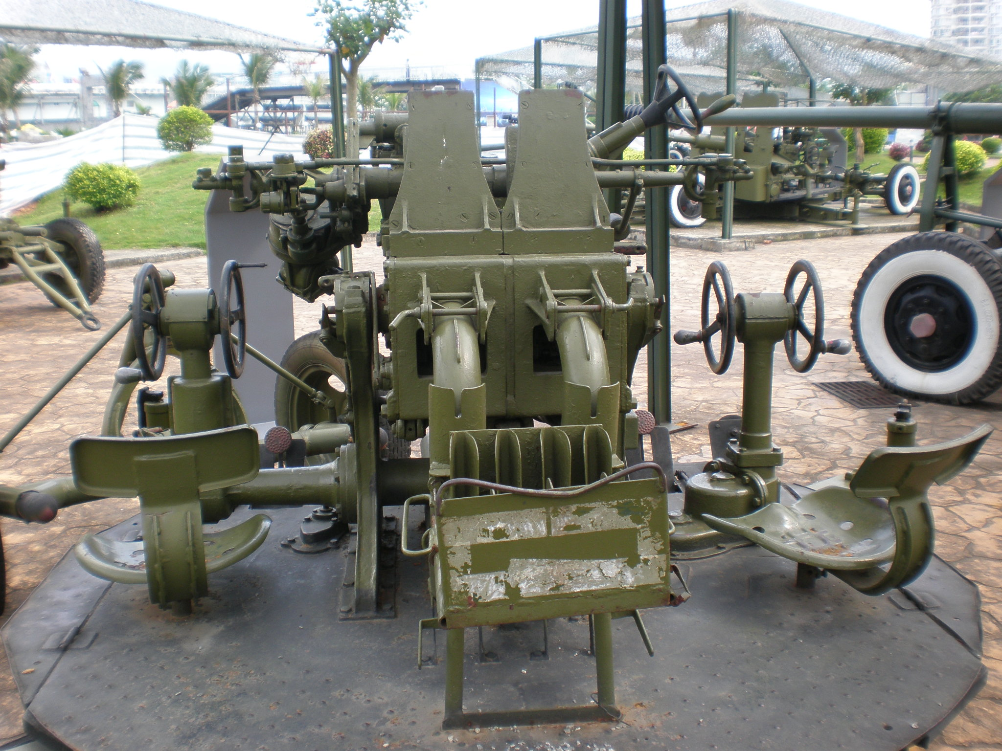 A Type 65 37 mm AA gun, a Chinese variant of the Soviet 37 mm automatic air defense gun M1939 (61-K), on display at the Minsk World military theme park in Shenzhen, China. The former Soviet aircraft carrier Minsk is the centerpiece of Minsk World.